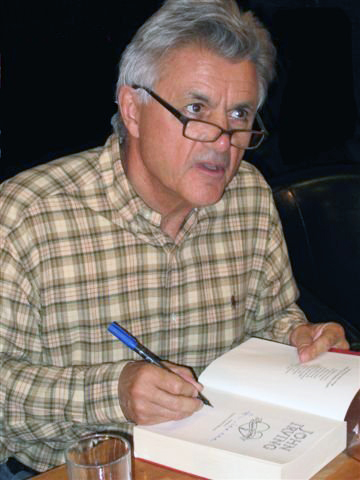 John Irving (b. 1942), American writer